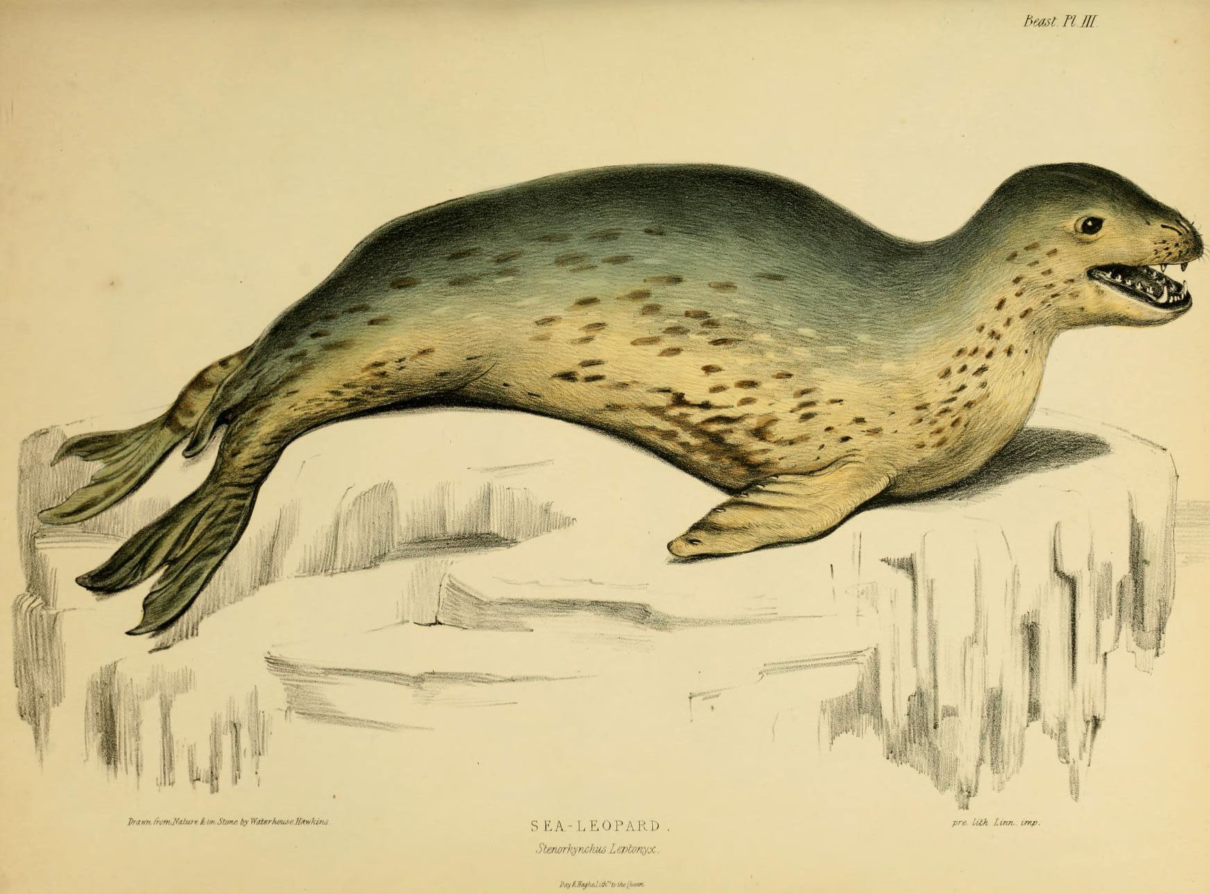 .■«^*„* s o I S 1 I